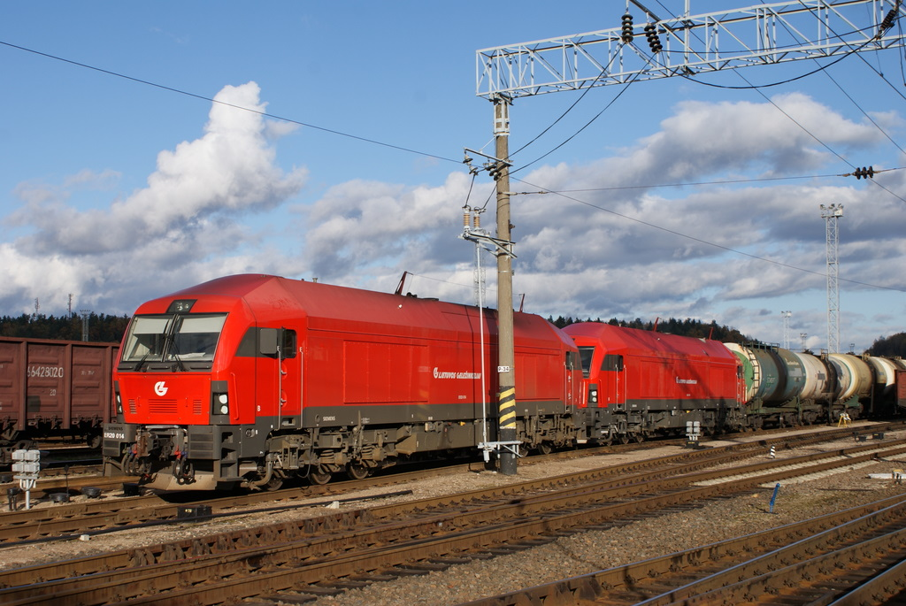 Lithuanian Railways (LG) Siemens ER20 locomotive at Paneriai yard.